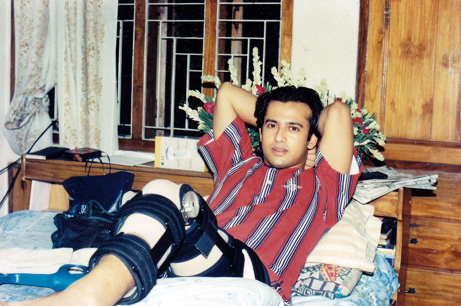 Injured Riaz at his home in 2001